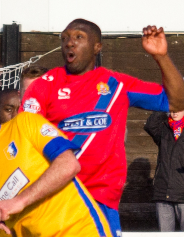 Femi Ilesanmi playing for Dagenham & Redbridge against Mansfield Town at Field Mill, Mansfield on 1 March 2014